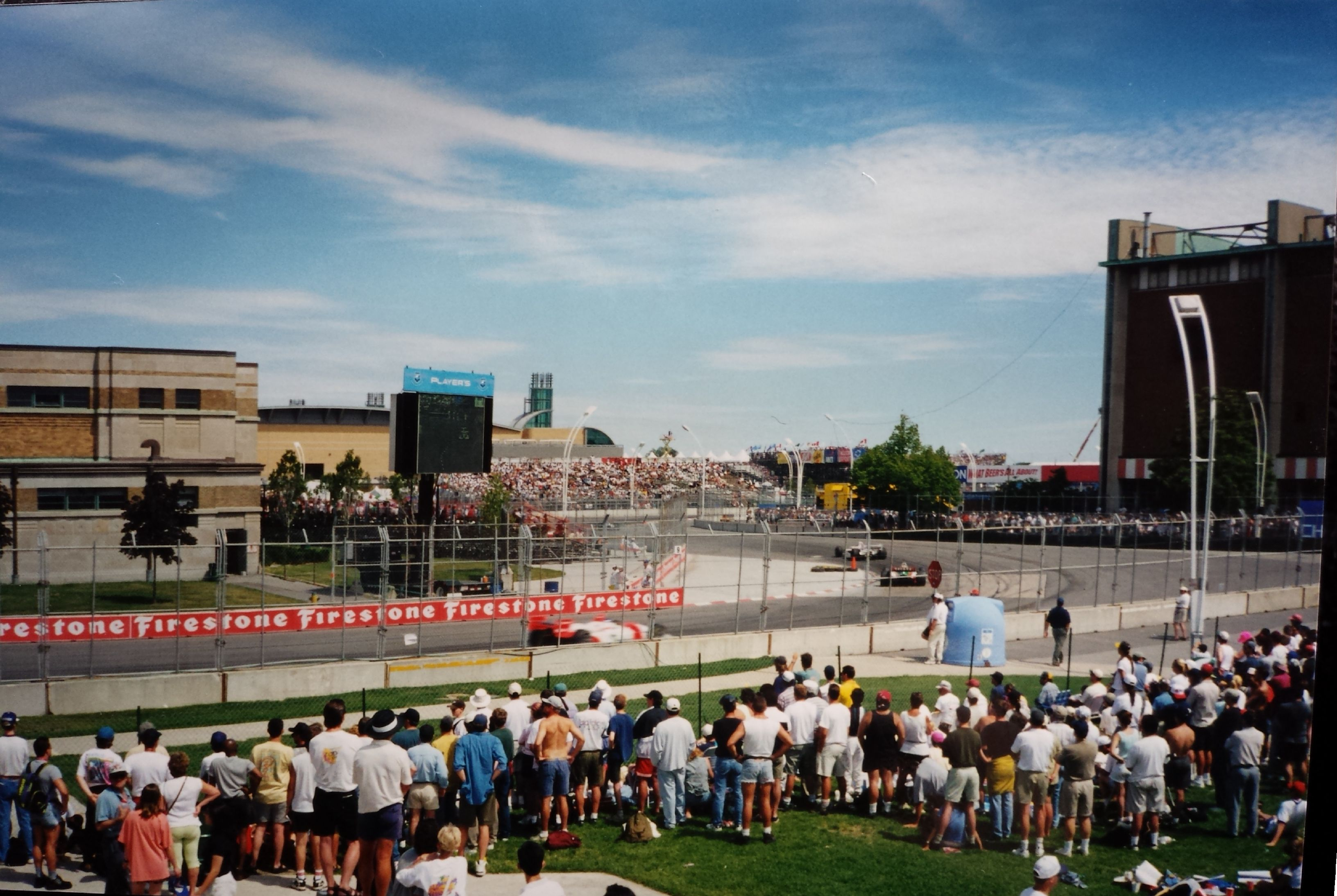 1997 Toronto Molson Indy, at Exhibition Place in Toronto, Ontario, Canada